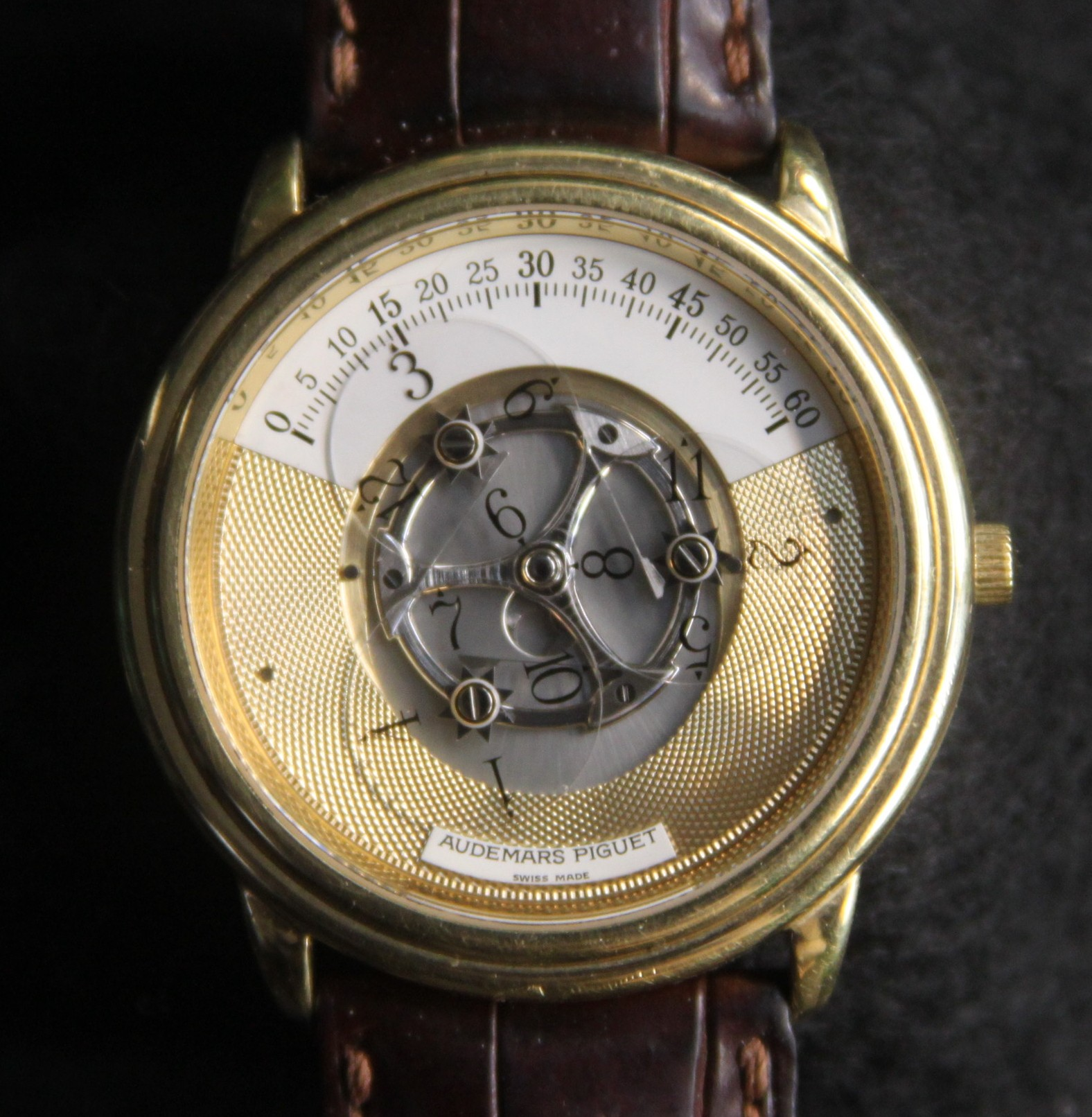 Star Wheel, Audemars Piguet